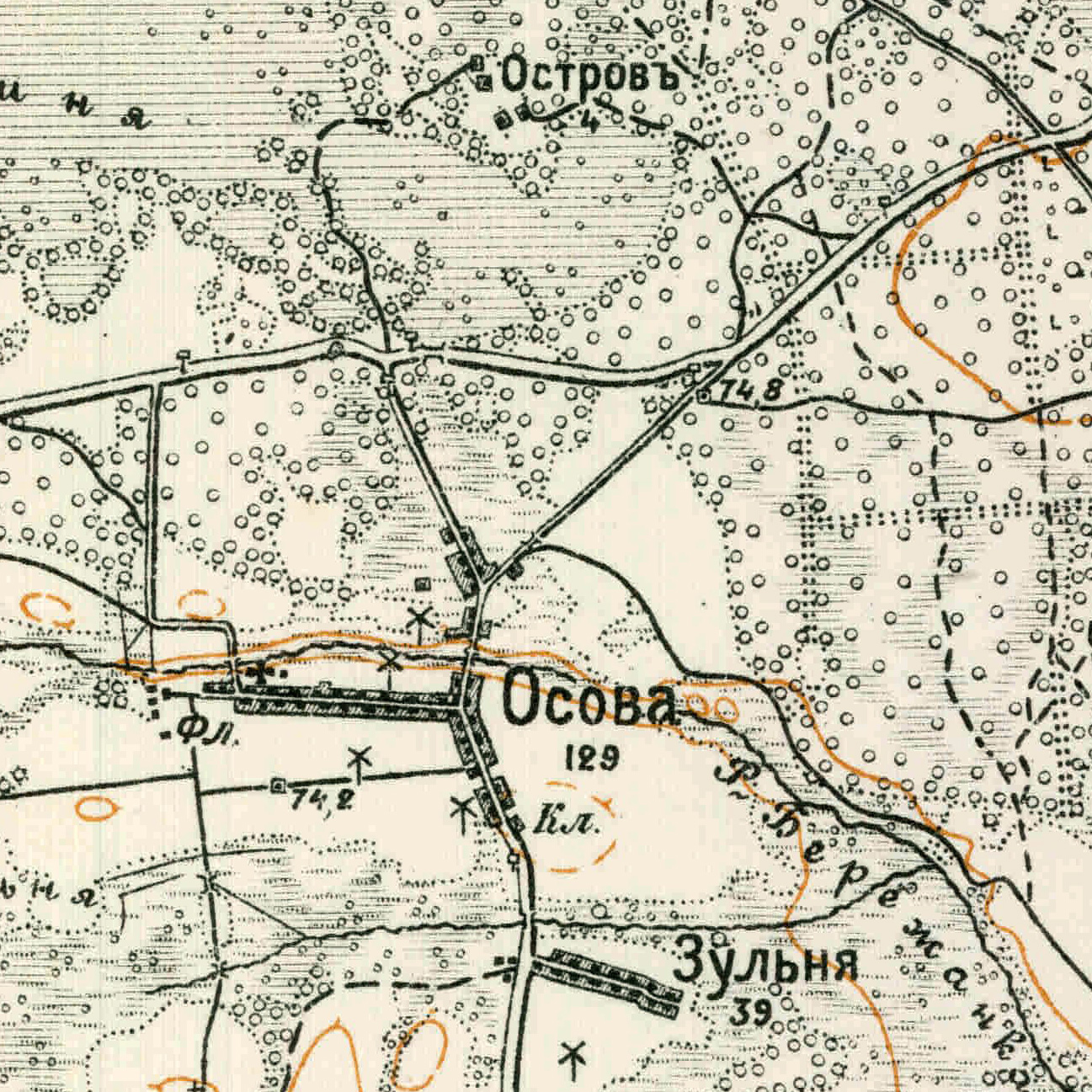 Osova on the map "Новая Топографическая Карта Западной России", XXVI 21, 1915.